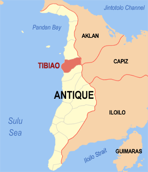 Map of Antique showing the location of Tibiao